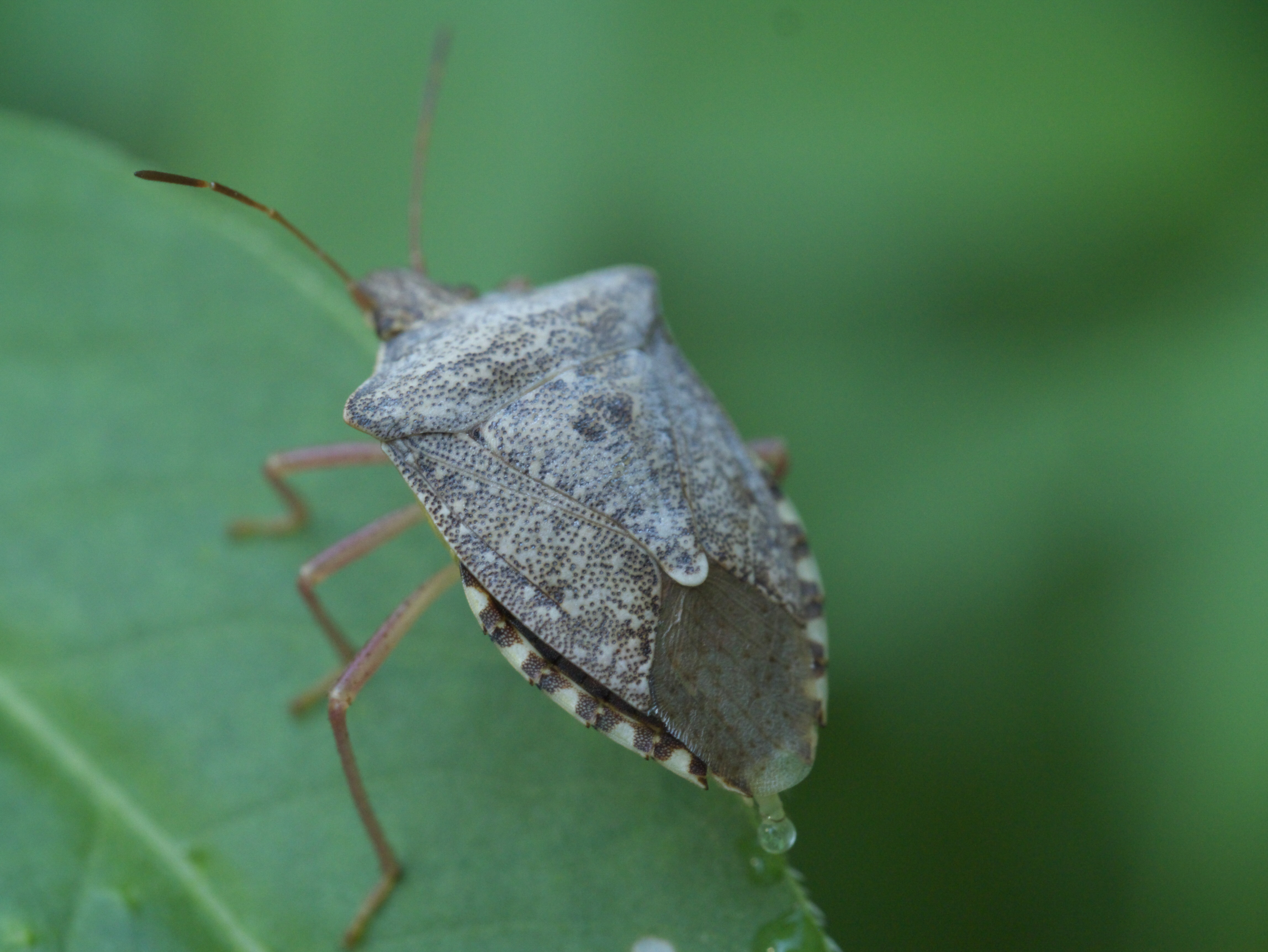 Euschistus servus, Brown Stink Bug, ID Confidence: 87